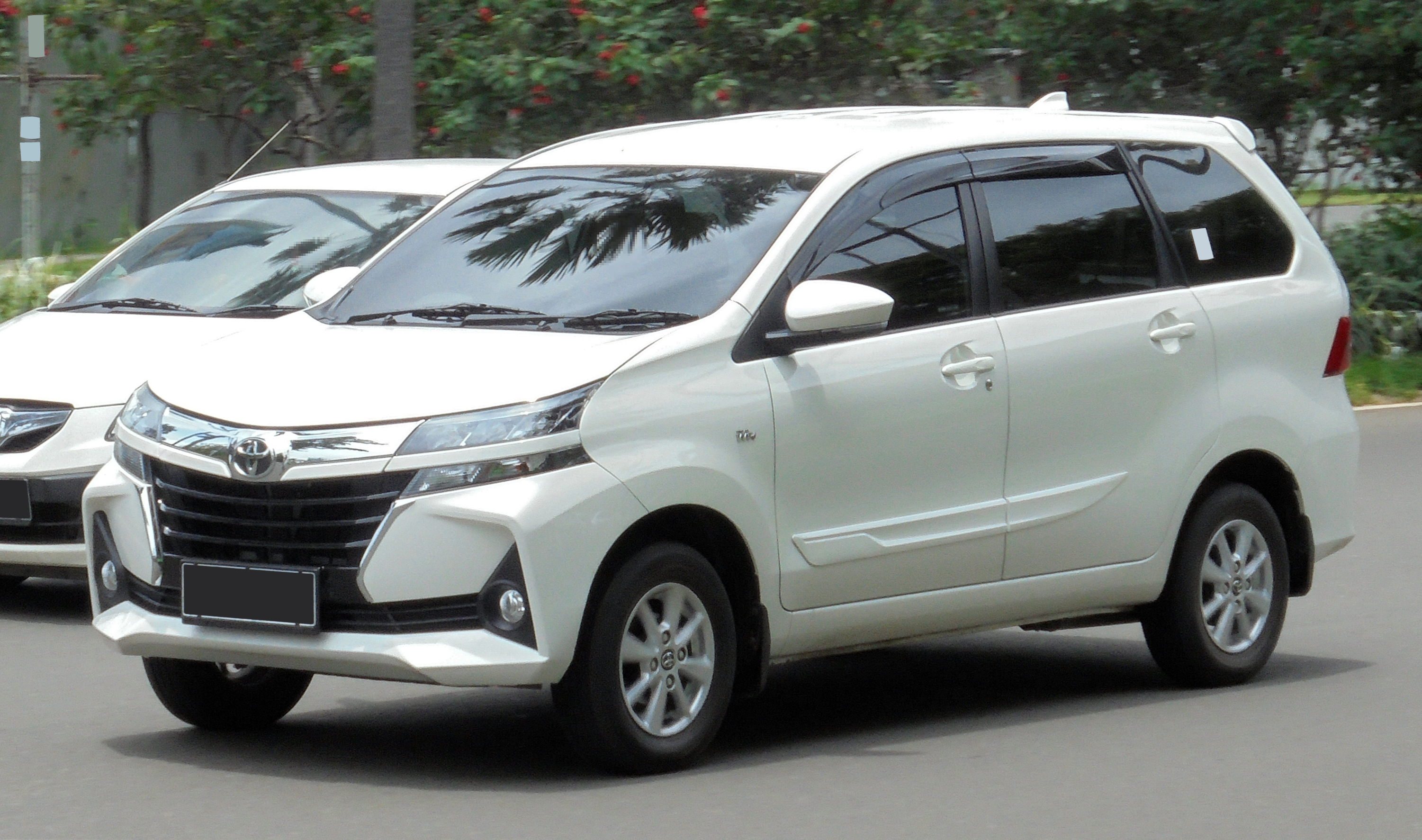 2019 Toyota Avanza 1.3 G (F653RM)